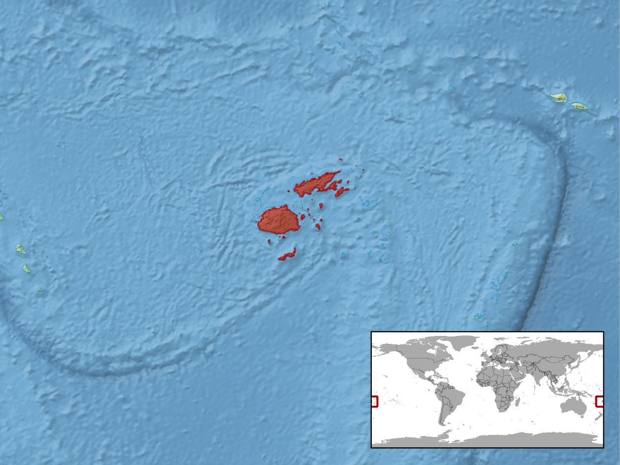 geographic distribution of Brachylophus bulabula (Native: Fiji / Introduced: Vanuatu)